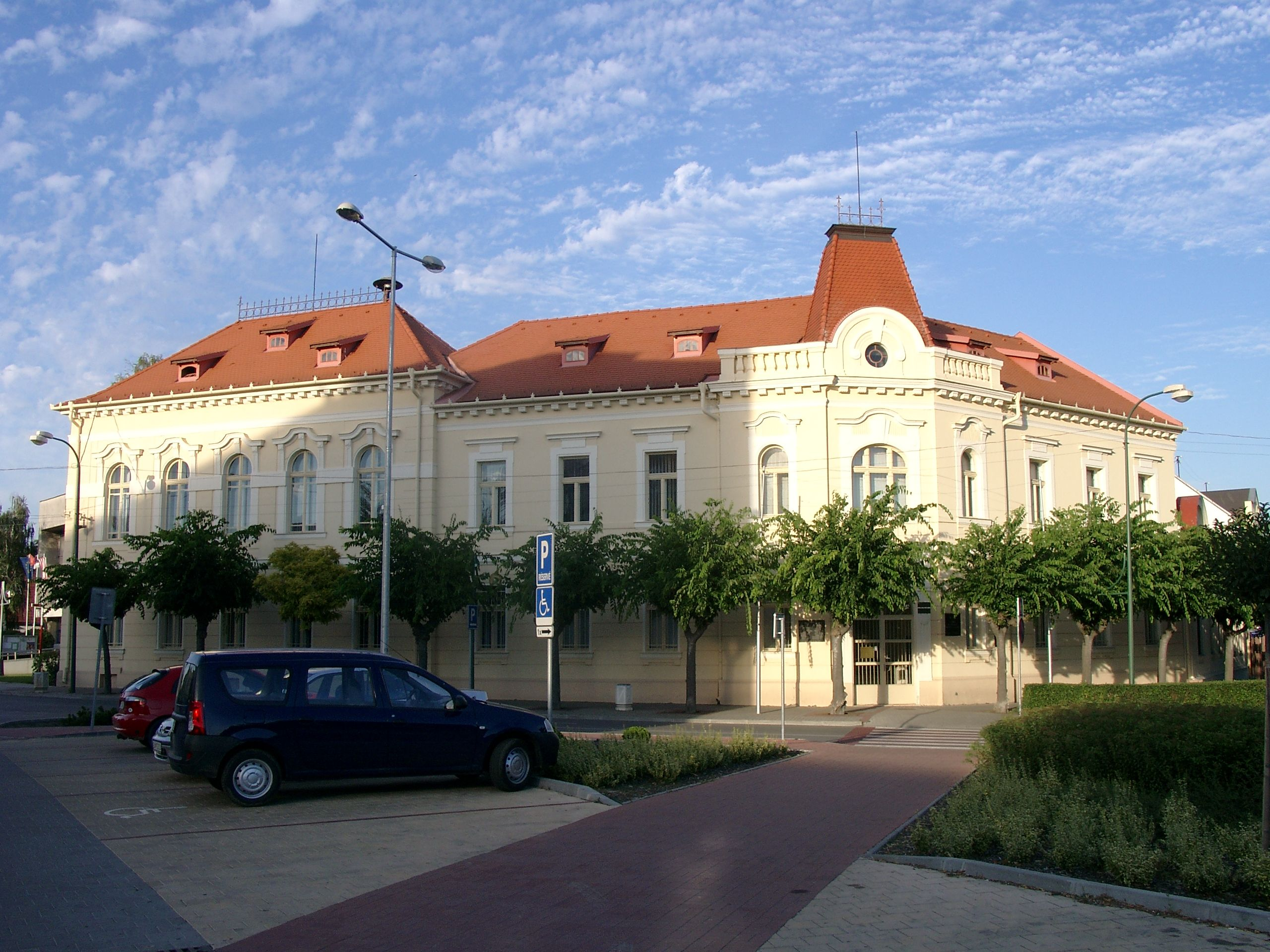 building in Sereď